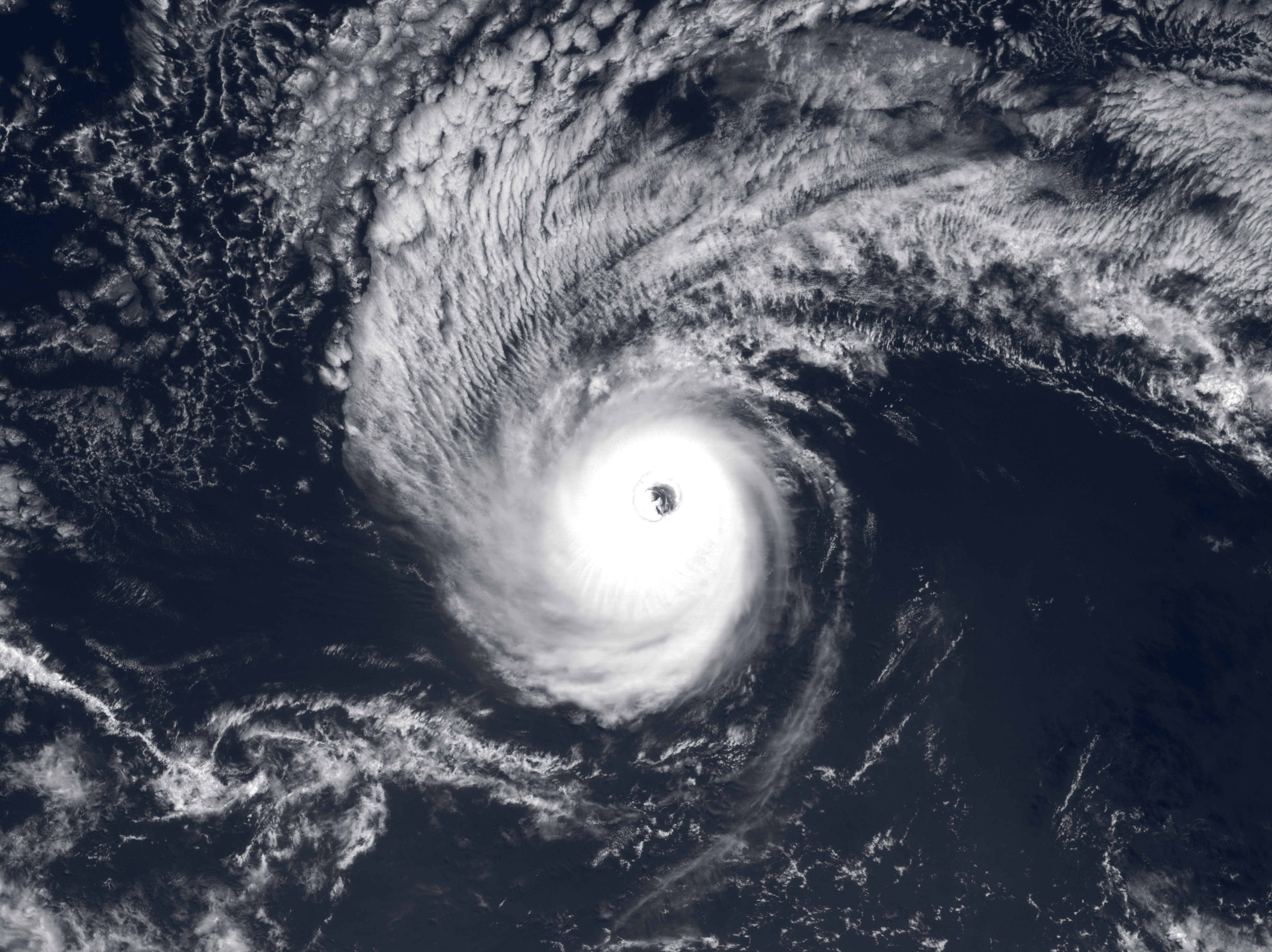 Hurricane Dora near peak intensity as a Category 4 hurricane at 20:30 UTC on August 12, 1999.